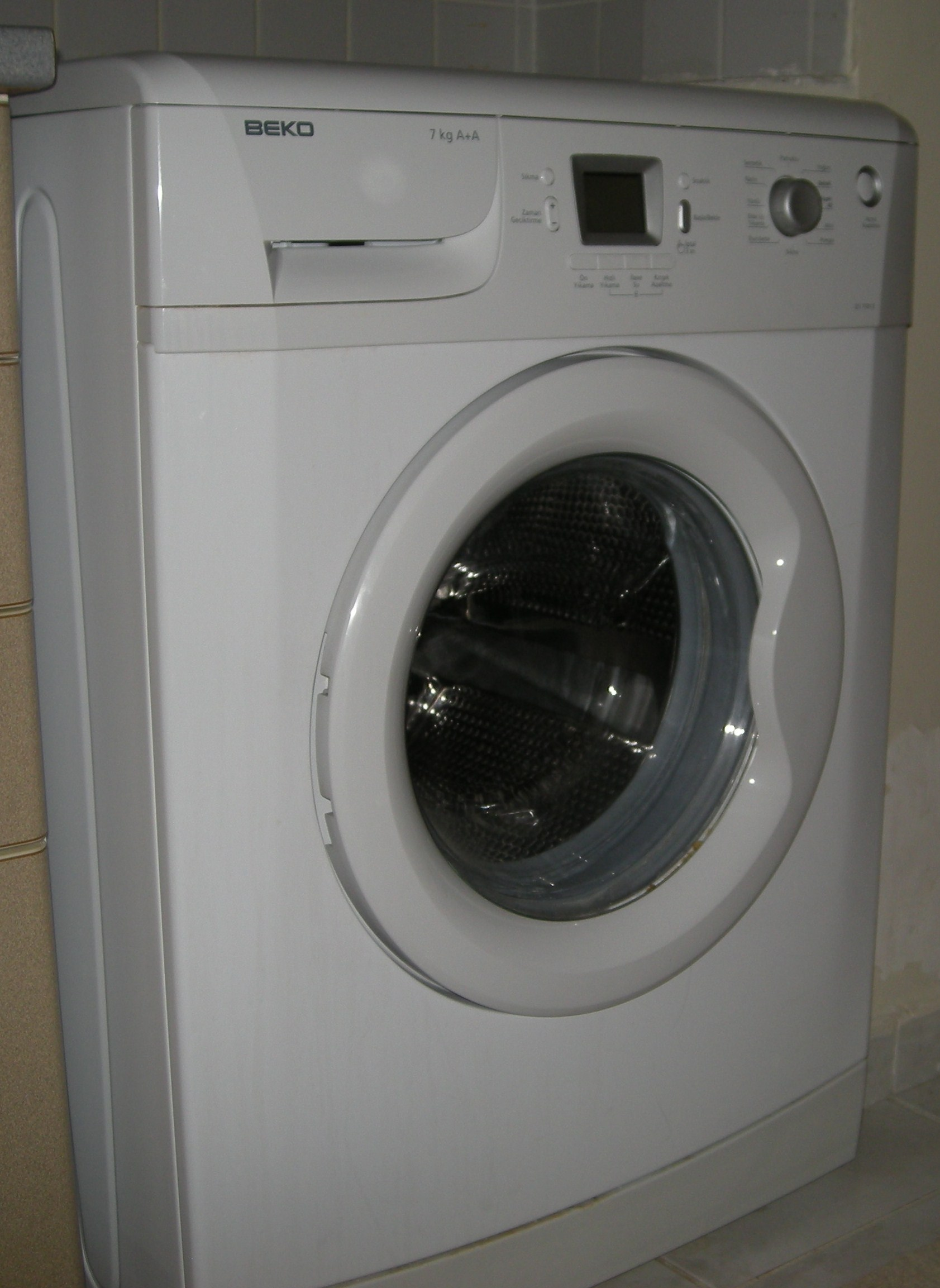 Beko Washing Machine.